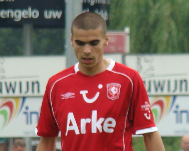 Image of the FC Twente-player Ibrahim Maaroufi